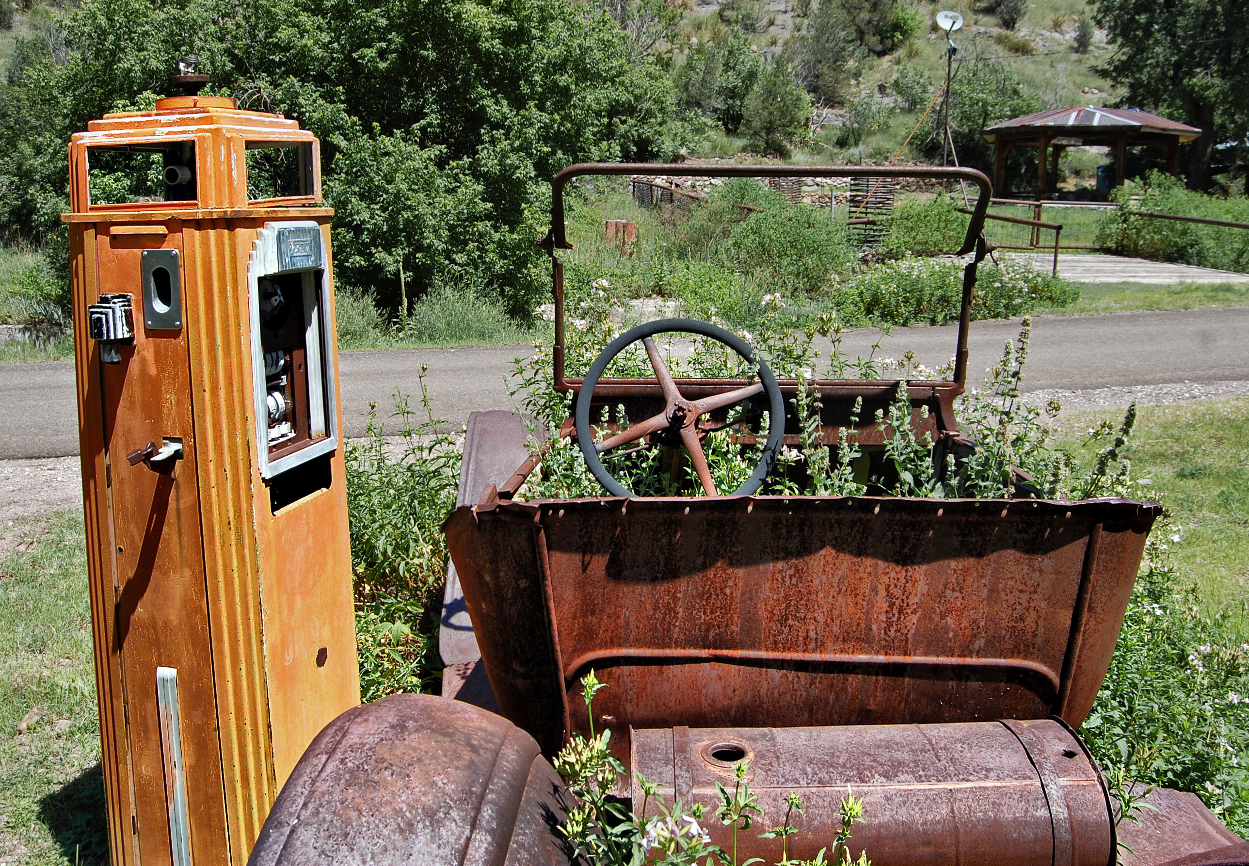 Looks like it's been a while since this automobile saw a full tank of gas.